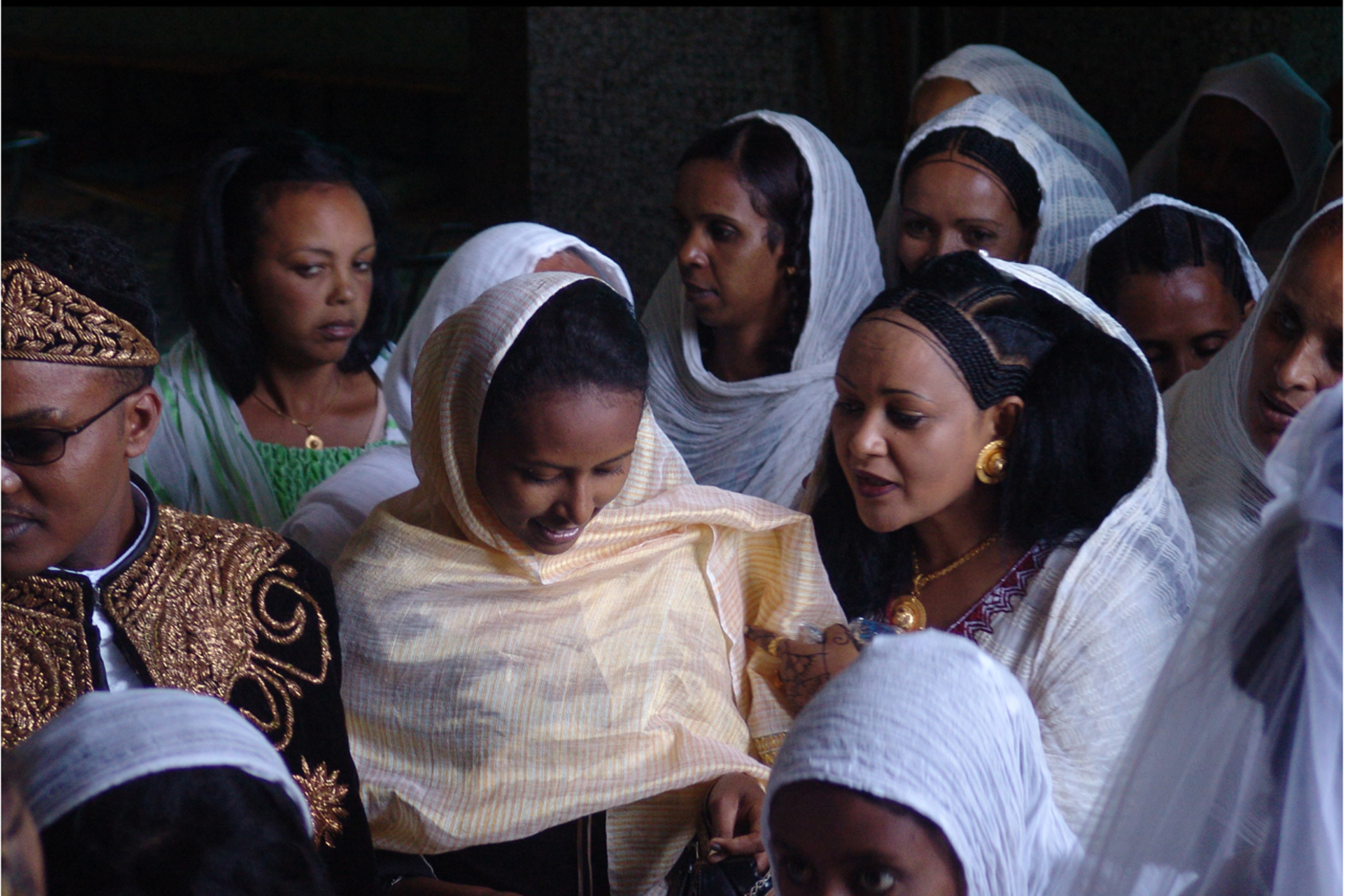 Wedding in Eritrea, Africa in 2005